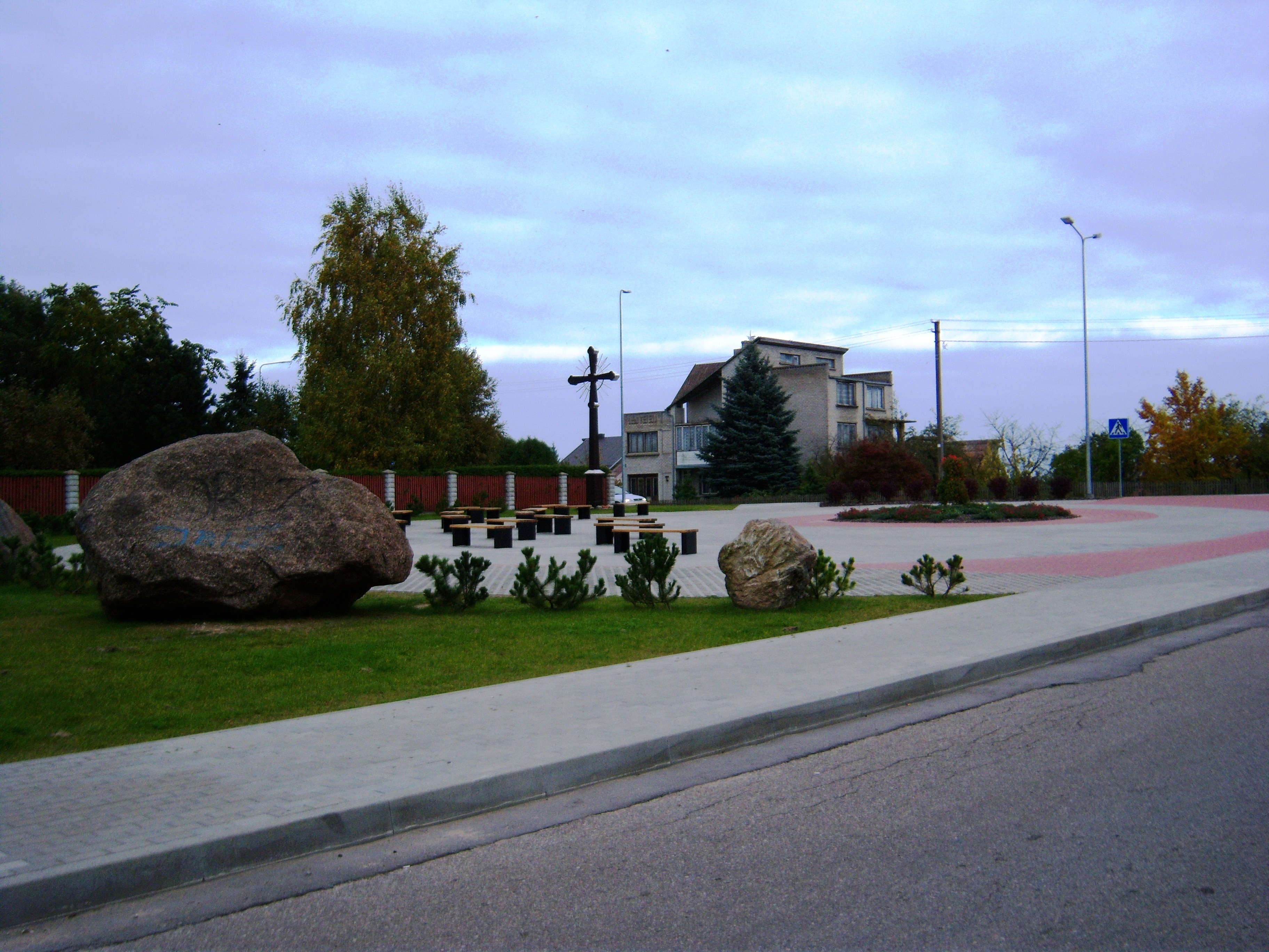 Square in Ringaudai, Kaunas district, Lithuania